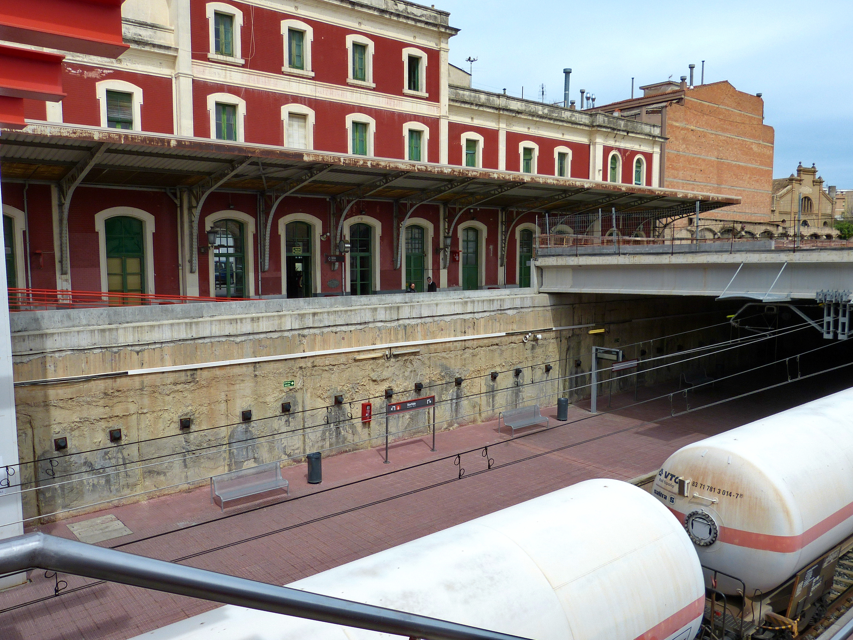 Railway station in Vilafranca del Penedès.